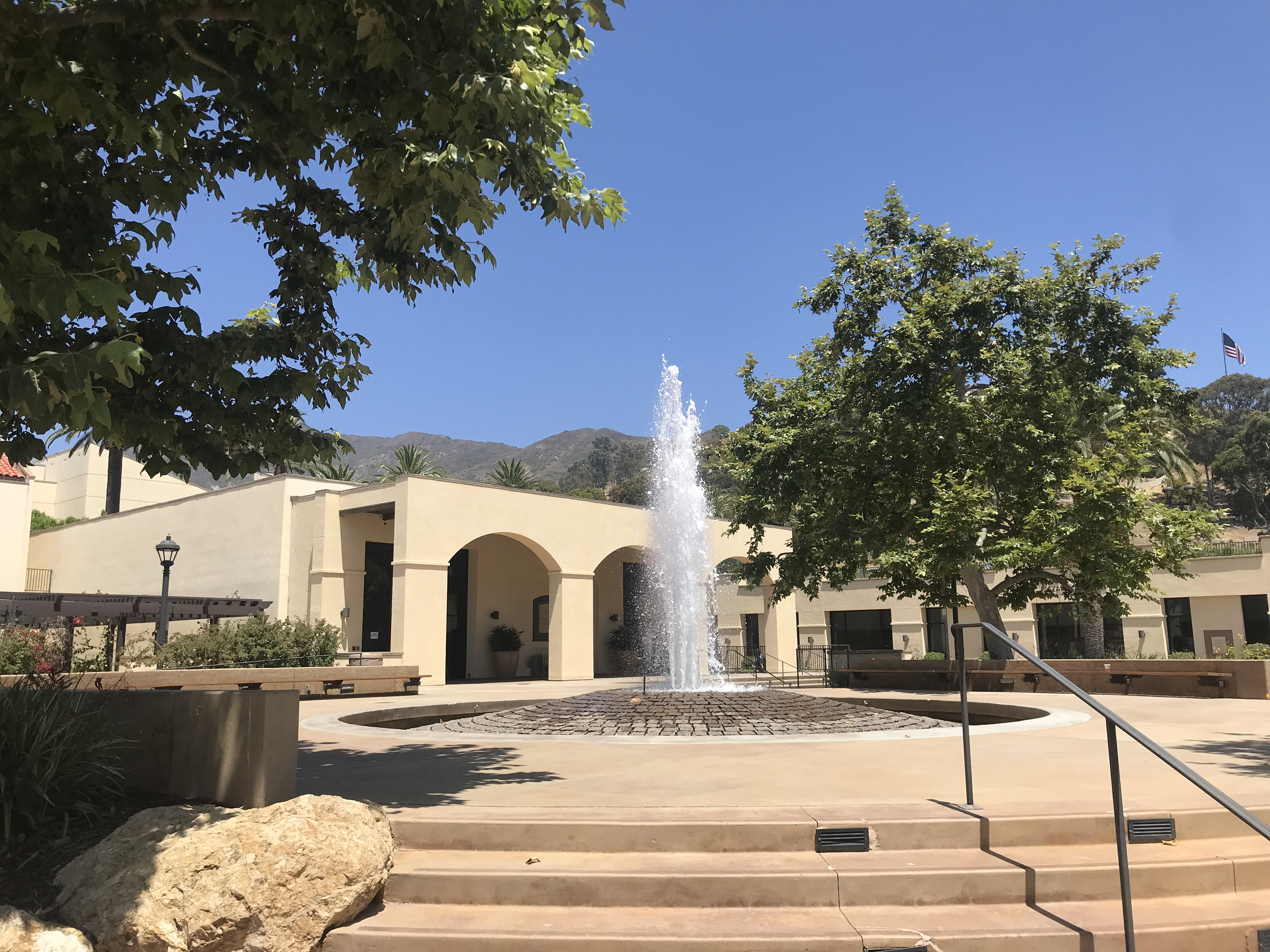 The fountain at Joslyn Plaza on the Malibu campus of Pepperdine University, with a view of Elkins Auditorium in 2019